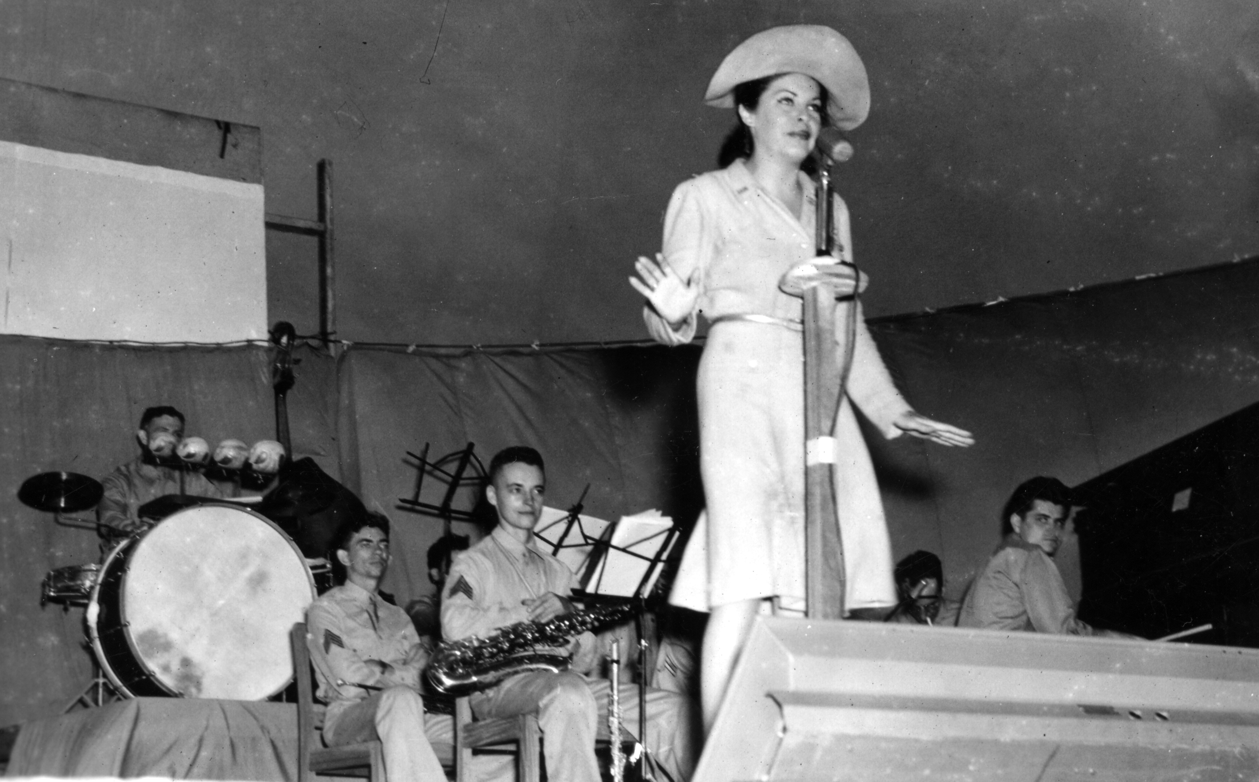 Martha Raye entertaining troops. Probably North Africa, c. 1943